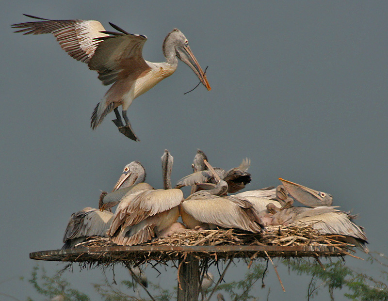 Spot-billed PelicanPelecanus philippensis in Uppalapadu, Andhra Pradesh, India.